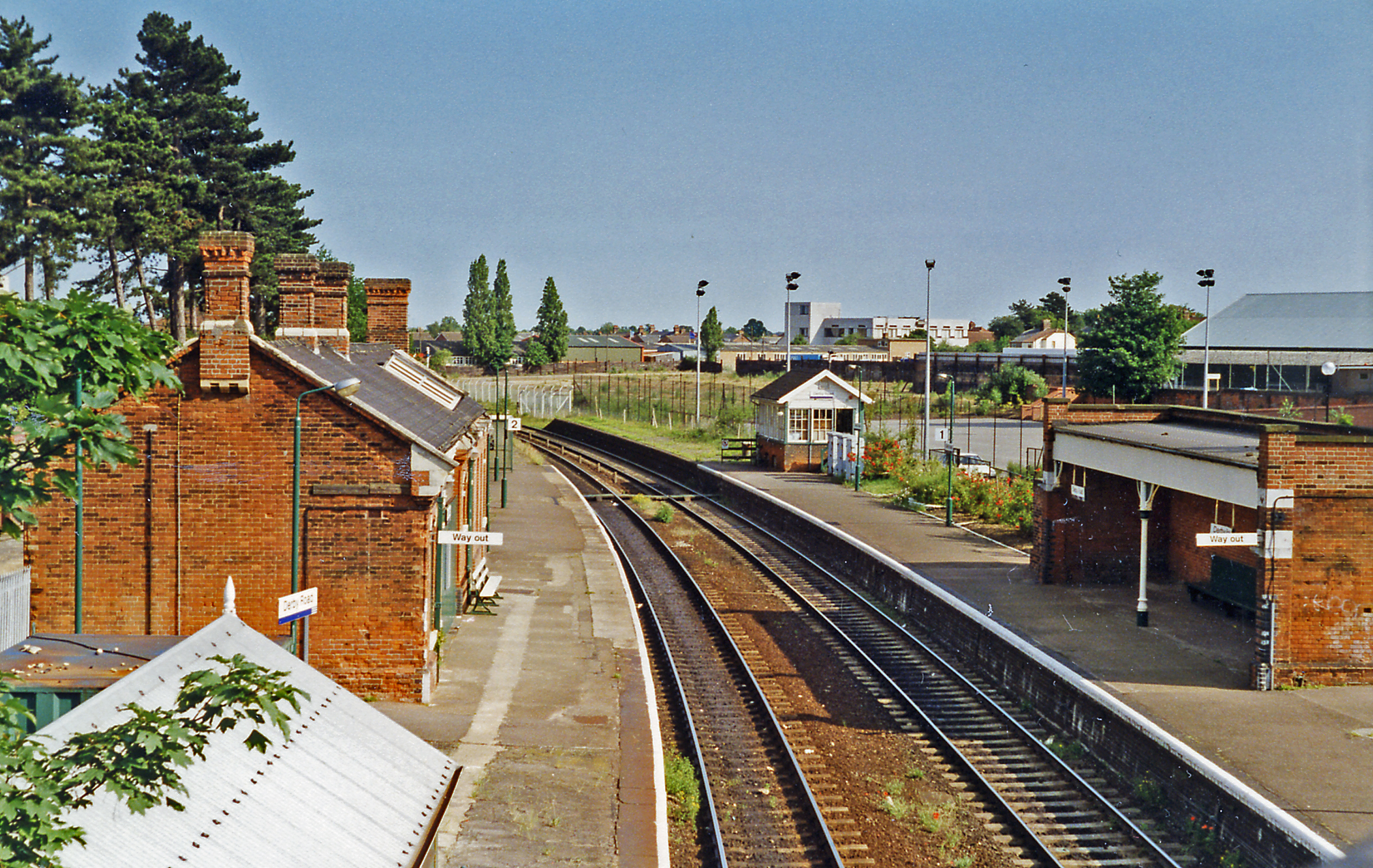 Derby Road station, Ipswich. View eastward, towards Felixstowe: ex-GER Ipswich - Felixstowe branch, formerly mainly serving local passenger trains to the seaside resort, the line now sees a procession of freight-container trains from the major port of Felixstowe.